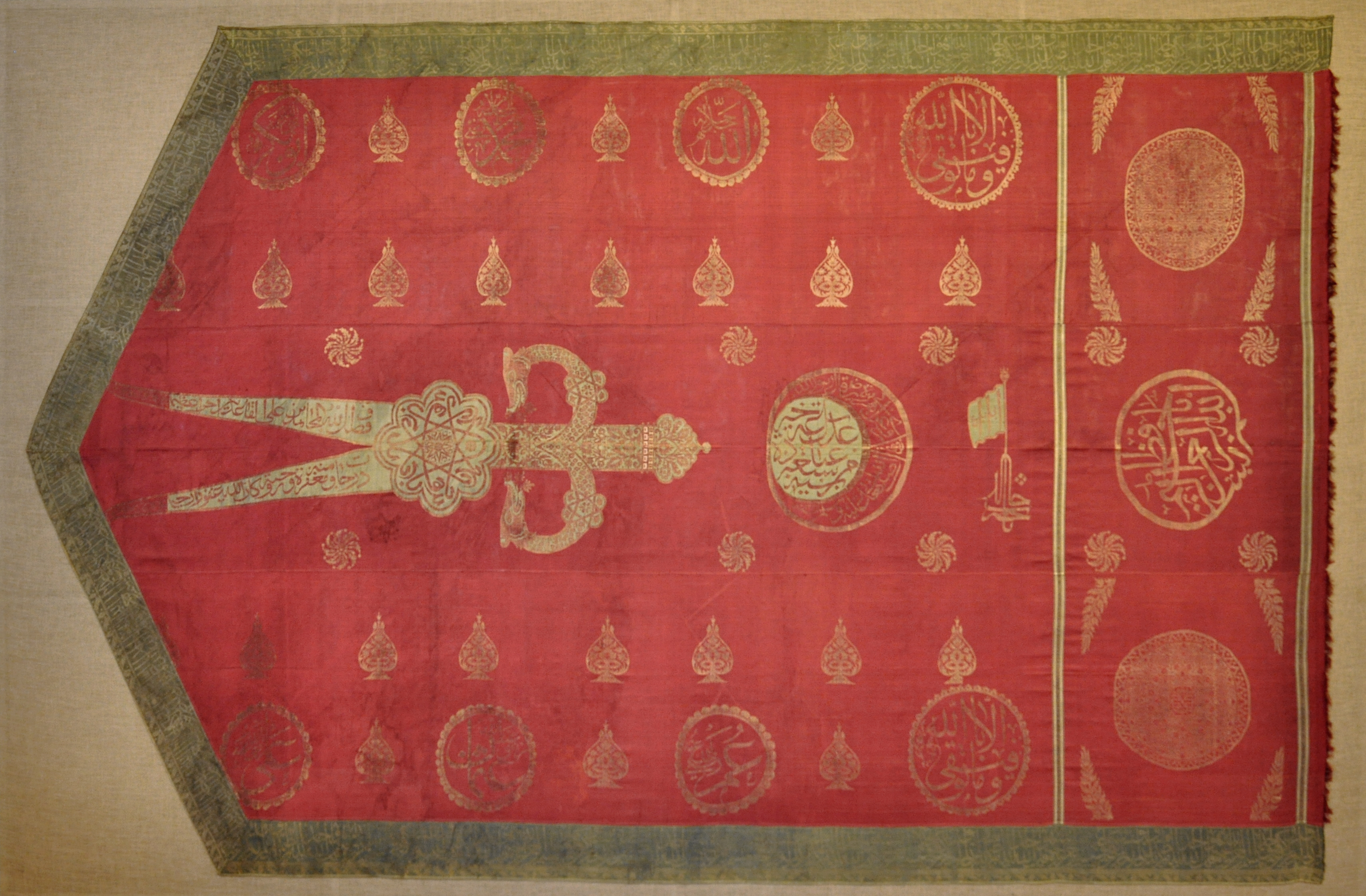 Silk damask flag from Istanbul, dated „1225“ (= 1810–1811 AD); Museum für Angewandte Kunst Frankfurt am Main